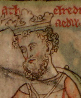 Ethelred II of England